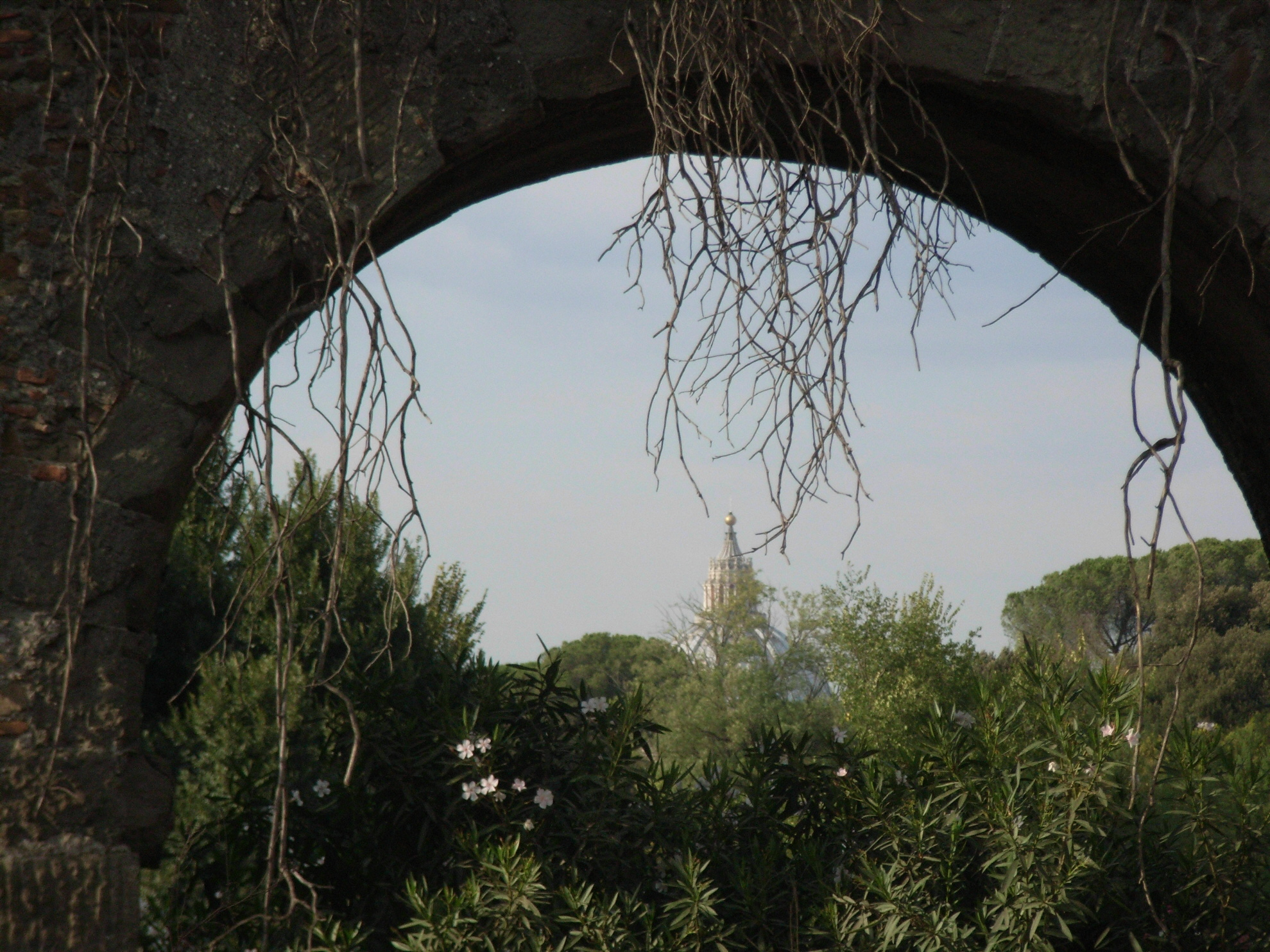 Pamphili Park View of St Peters